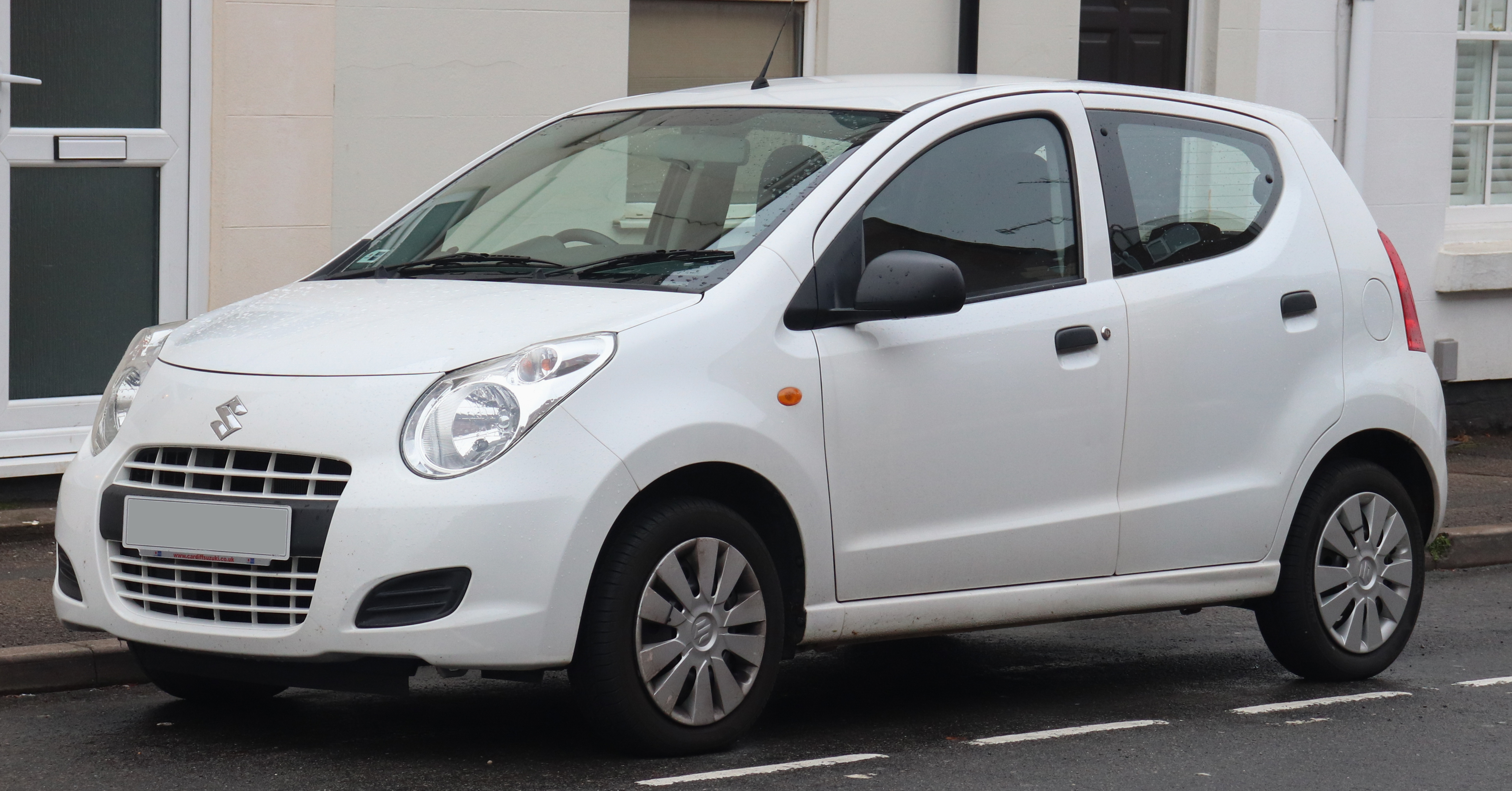 2014 Suzuki Alto SZ 1.0 Front Taken in Leamington Spa